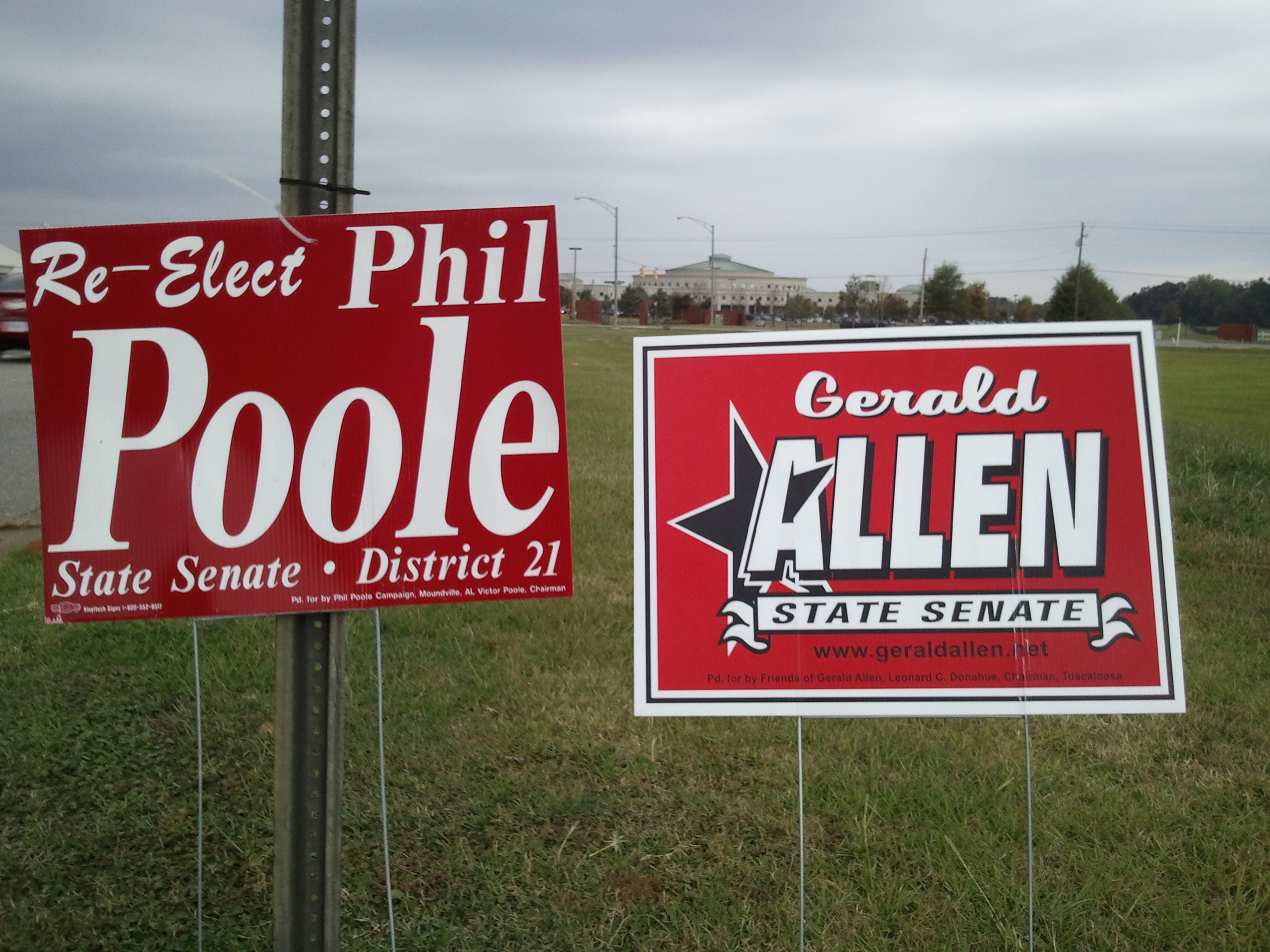 "Laugh about it, shout about it, when you've got to choose Any way you look at it you lose."